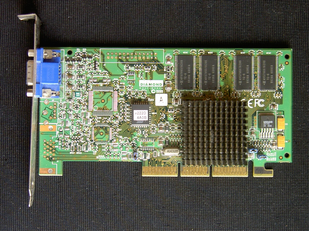 Diamond MultiMedia StealtheIII S540 Xtreme Savage4 Xtreme AGP Card